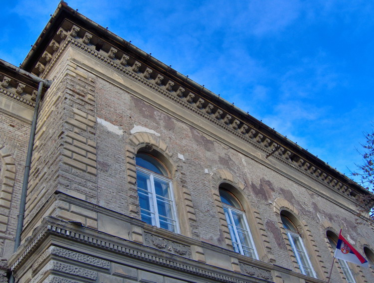 Main facade of Trade academy, January 2007